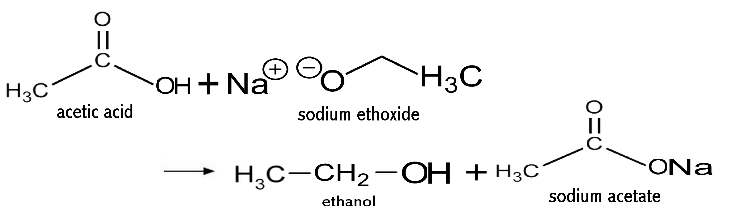 Reaction between sodium ethoxide and acetic acid